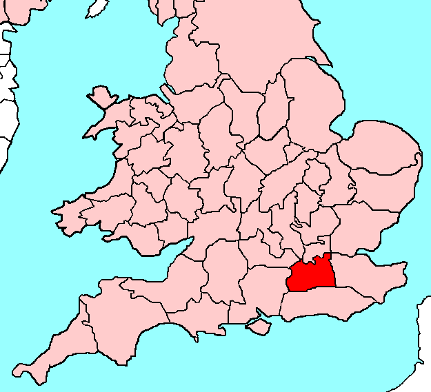 Surrey